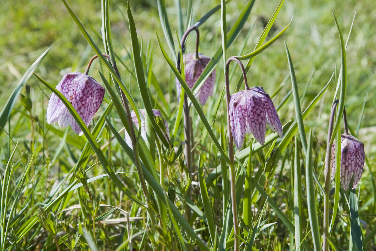 Fritillaria meleagris on meadow near Slatina river Slovakia, town Zvolen